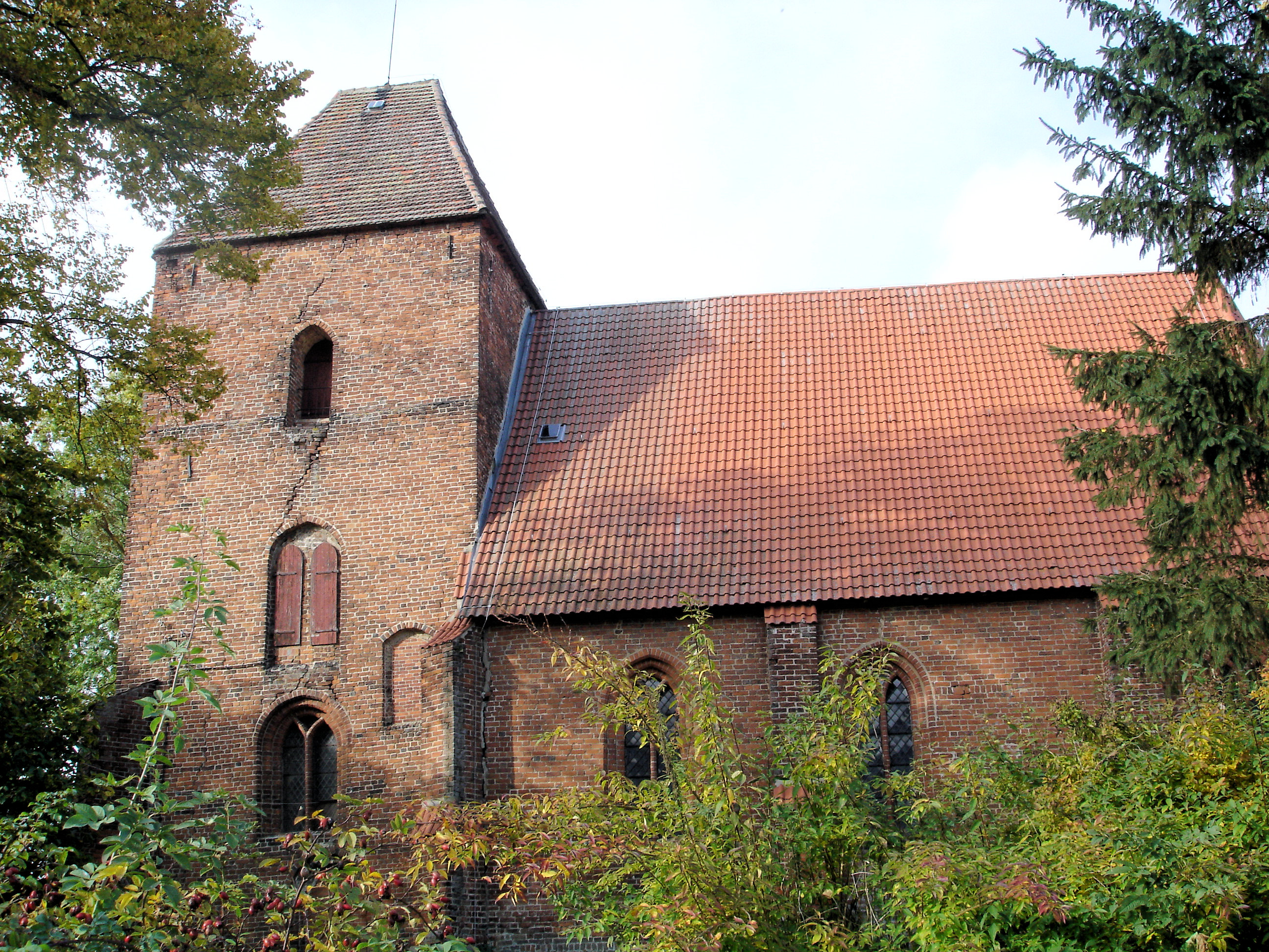 Church in Friedrichshagen, Mecklenburg, Germany